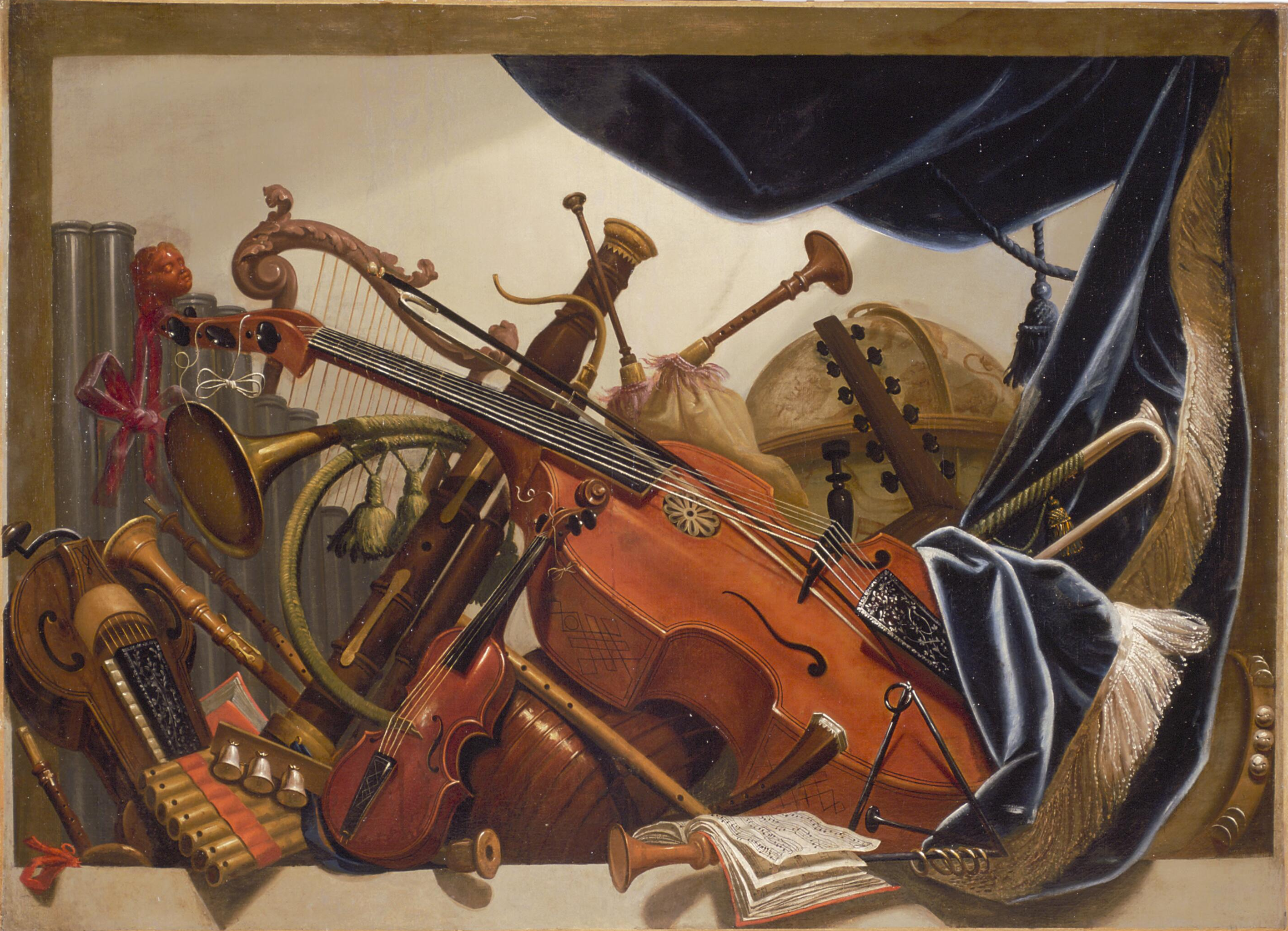 Oil painting from a prvite collection attributed to Elias van Nijmegen showing a still life composed of diverse baroque instruments, including a viola da gamba, violin, lute, chamber organ, recorder, oboe, bassoon, flute, panpipe, hunting horn, bagpipe, hurdy-gurdy and triangle